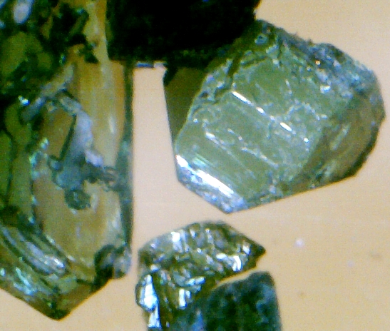 Green thorite crystals. Permission to upload under CC license given by Ahmet Arda of